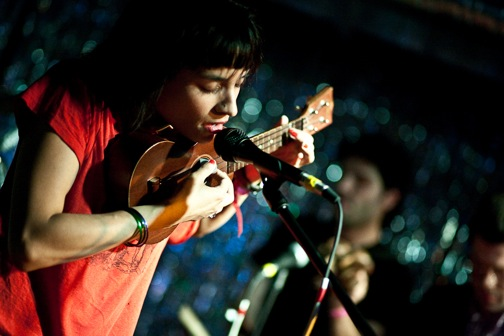 Priya Thomas at Sled Island Festival Calgary, 2009